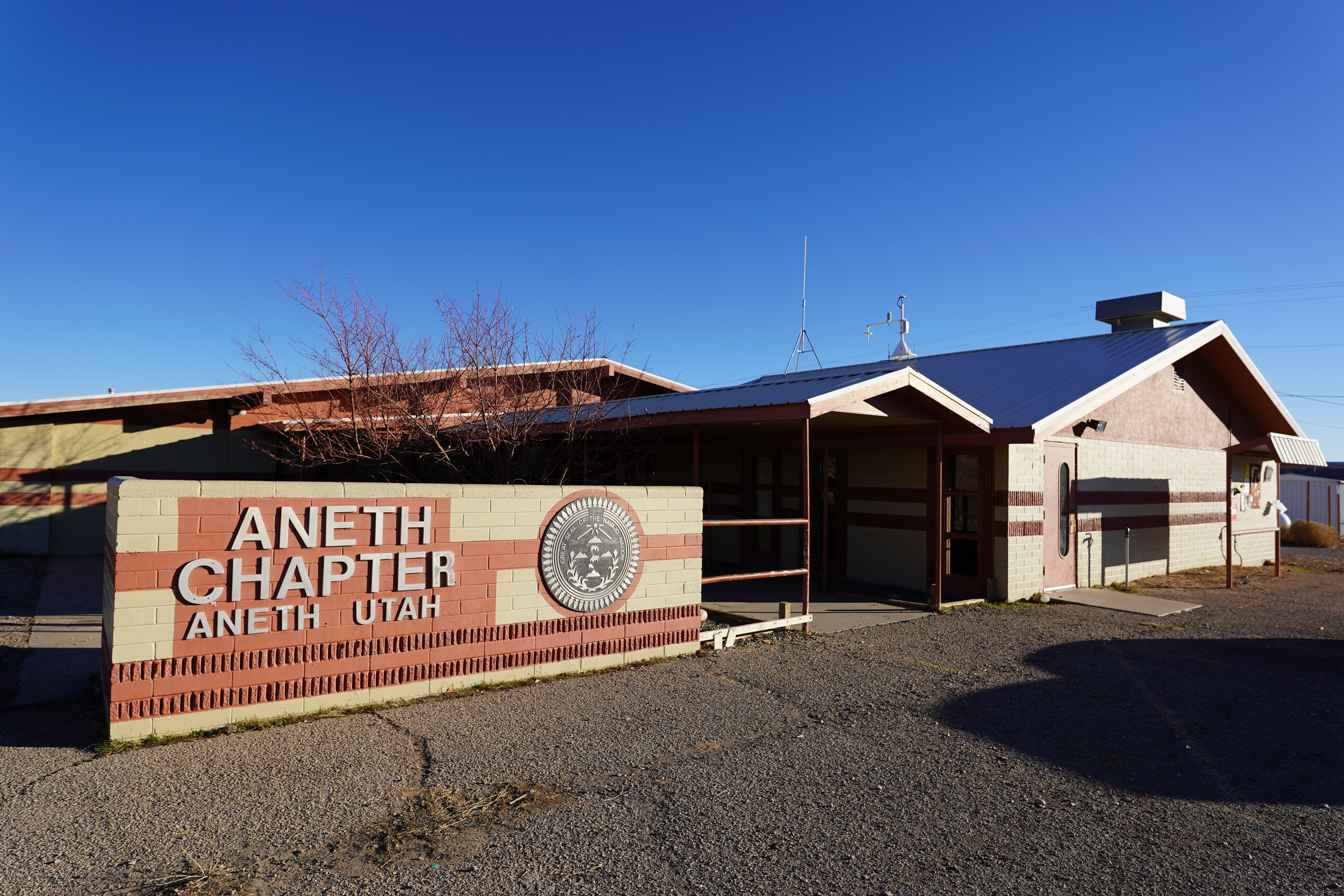 The Chapter House for the Navajo Nation Chapter of Aneth. Located in Aneth, Utah, USA. Inside is where elected officials discuss issues with the community and where decisions are made regarding funding of community projects.